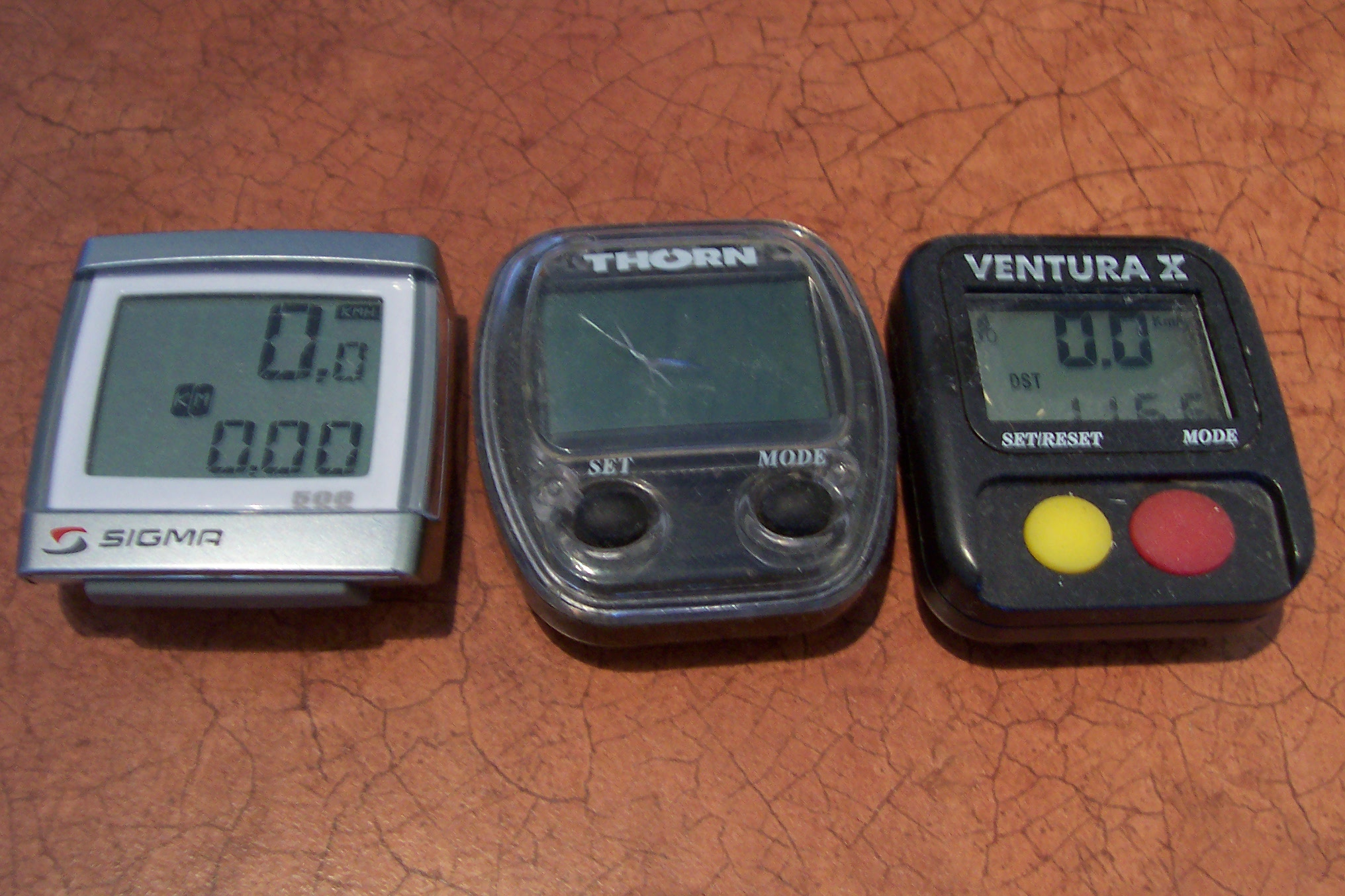 Cyclocomputers